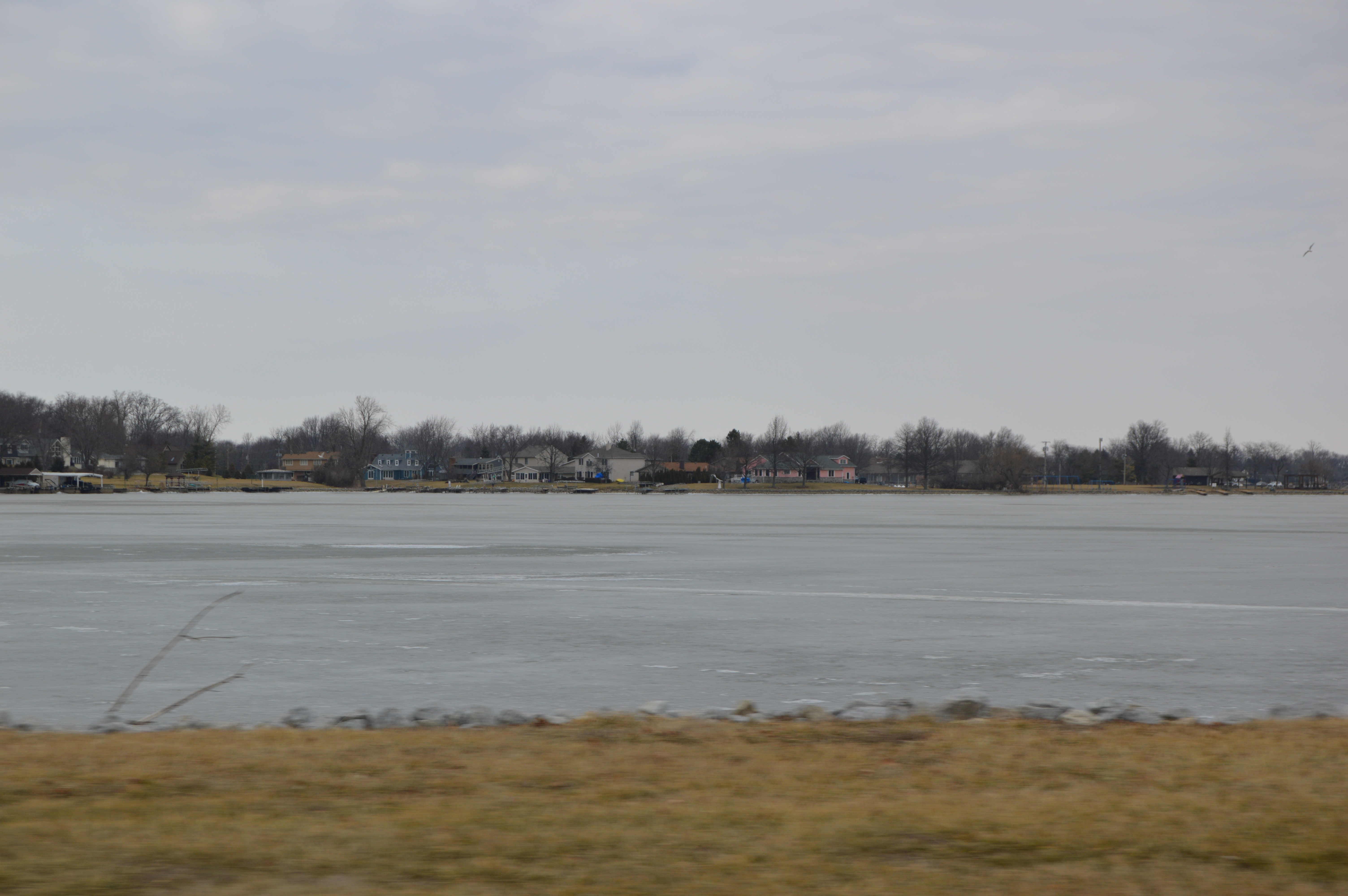 Overview of Choctaw Lake, looking north from Old Columbus Road, in far southern Somerford Township, Madison County, Ohio, United States.